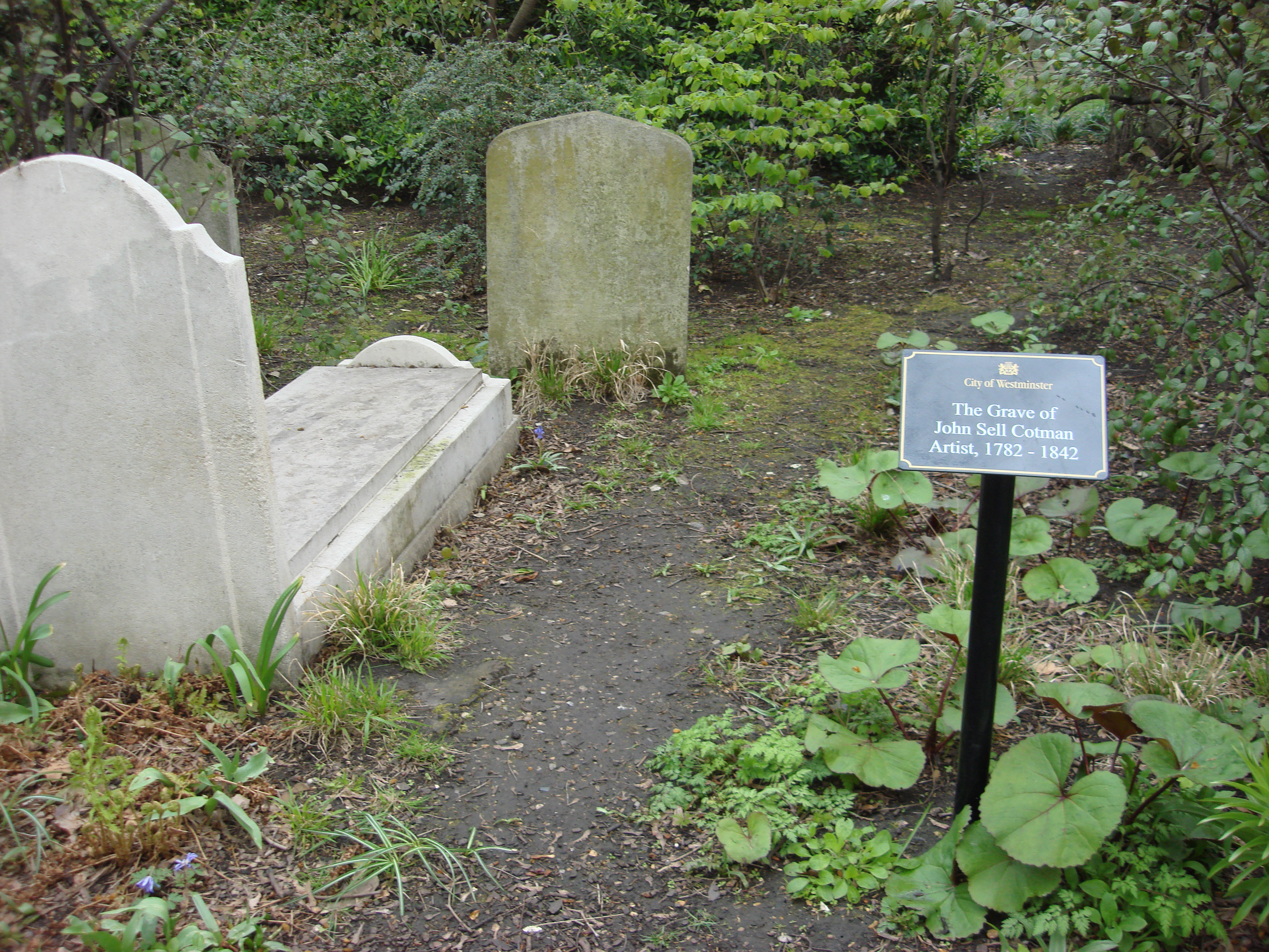 John Sell Cotman's grave in St John's Wood Churchyard